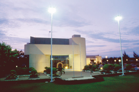 Centro de Información IEST